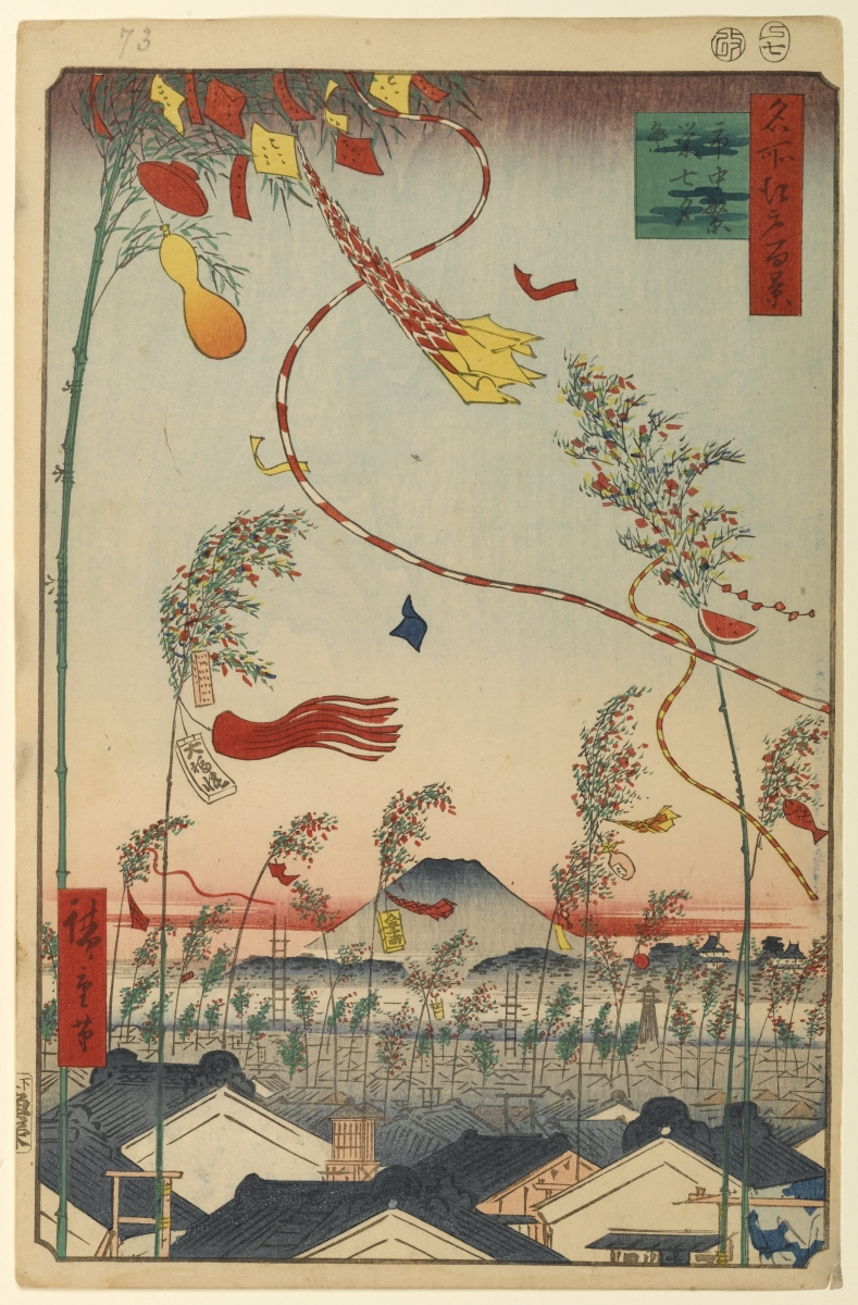 Part of the series One Hundred Famous Views of Edo, no. 073, part 3: Autumn.